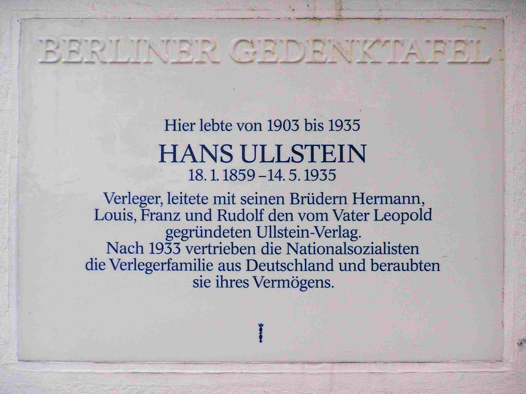 Berlin memorial plaque, Hans Ullstein, Bettinastraße 4, Berlin-Grunewald, Germany